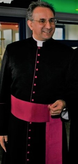 Mons. Gianfranco Gallone, Apostolic nunciature in Slovakia (2008)